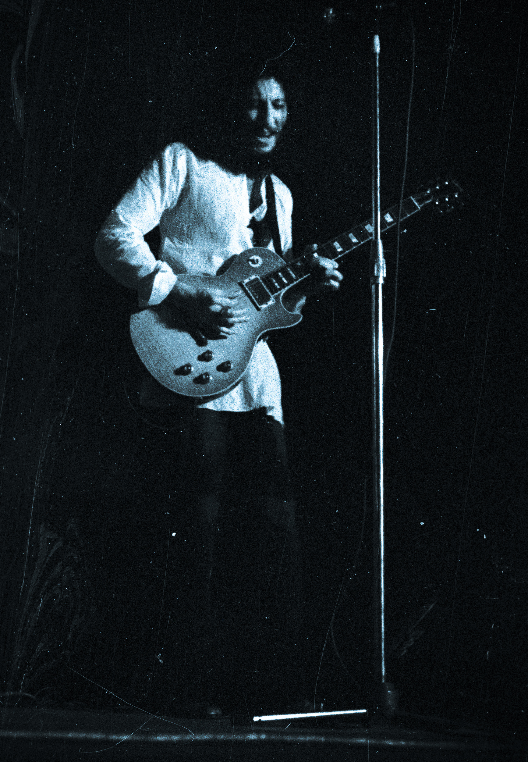 Peter Green, Fleetwood Mac, Niedersachsenhalle, Hannover, Germany. The Touring Band: Mick Fleetwood - Percussion, Peter Green - Lead Vocals/Guitar/Harmonica (left band in May), John McVie - Bass Guitar, Jeremy Spencer - Vocals/Guitar, Danny Kirwan - Vocals/Guitar